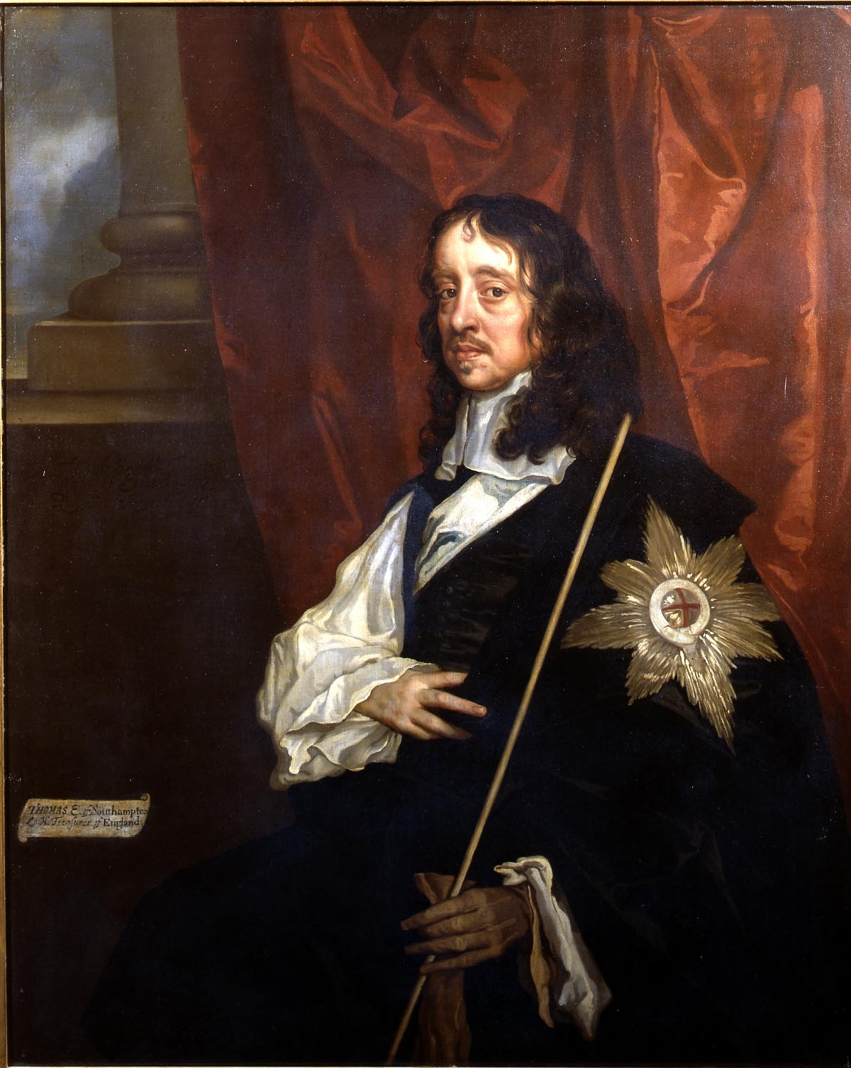 Thomas Wriothesley, 4th Earl of Southampton (1607-1667), Lord High Treasurer of England, holding his Staff of Office